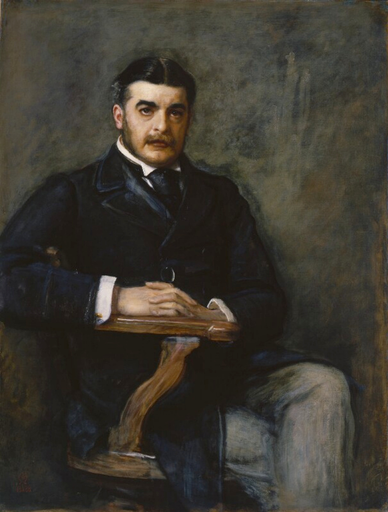 Sir Arthur Seymour Sullivan by Sir John Everett Millais, oil on canvas, 1888. National Portrait Gallery, London